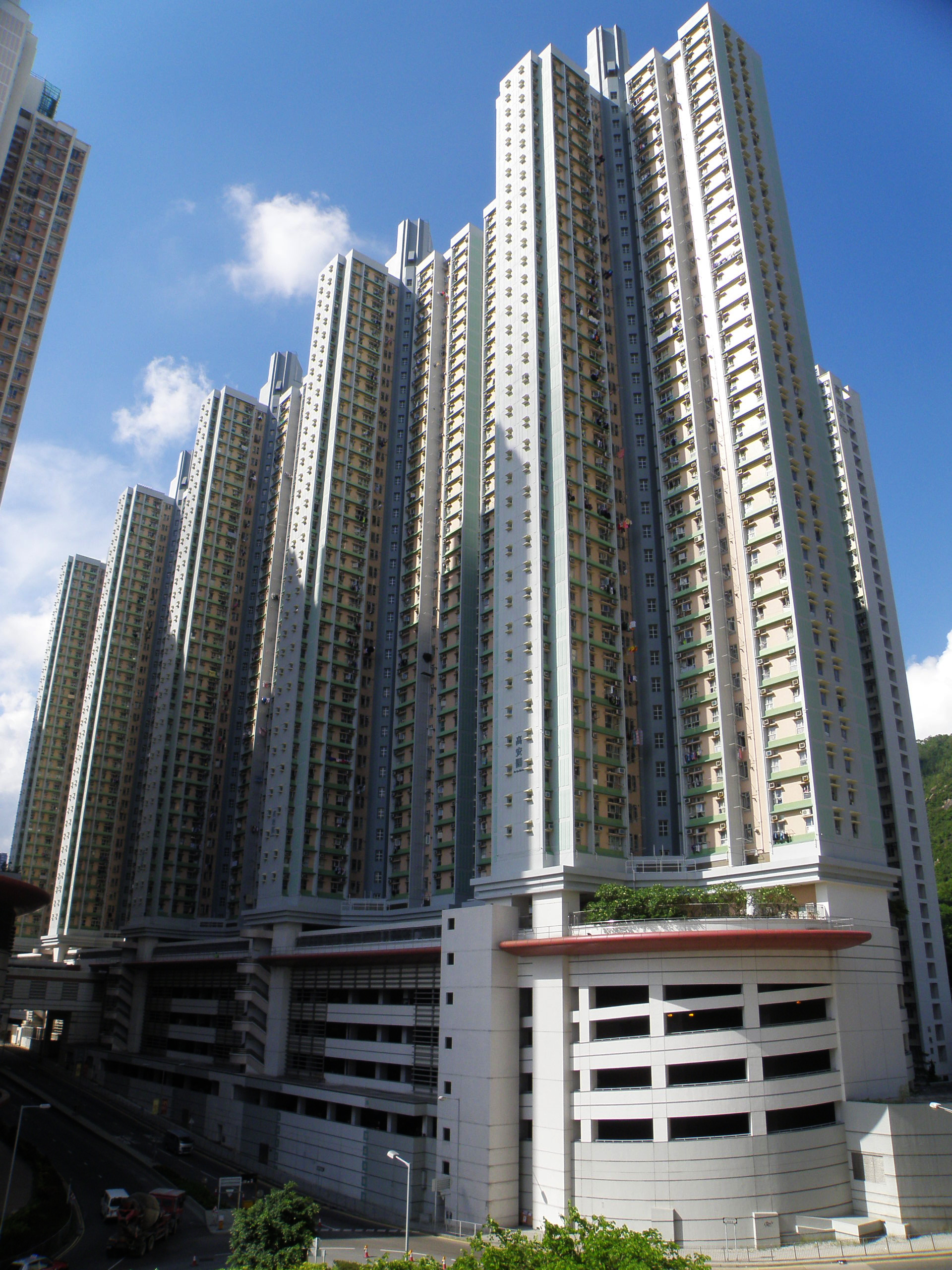 Ko Cheung Court in Yau Tong, Hong Kong.